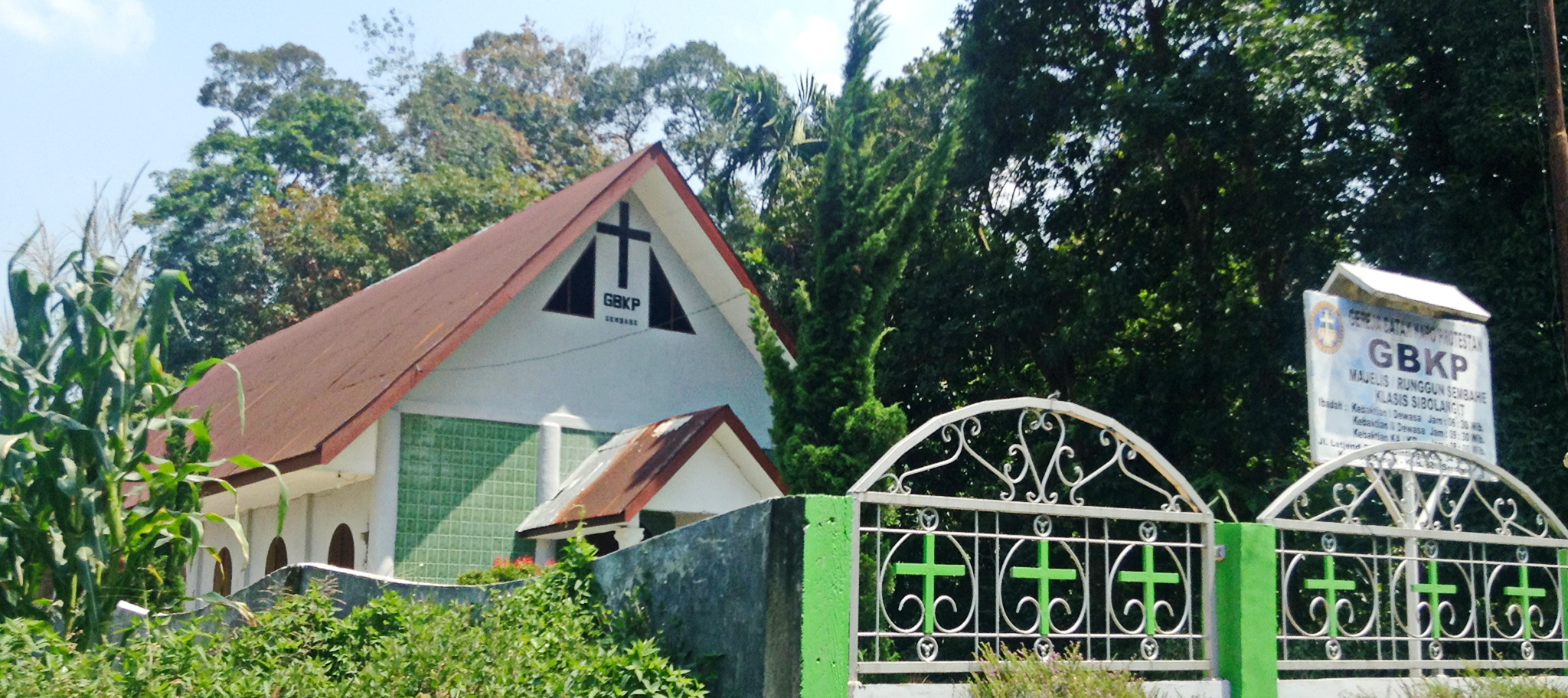 GBKP Rg. Sembahe, Klasis Sibolangit, Church in Sembahe, Sibolangit, Deli Serdang